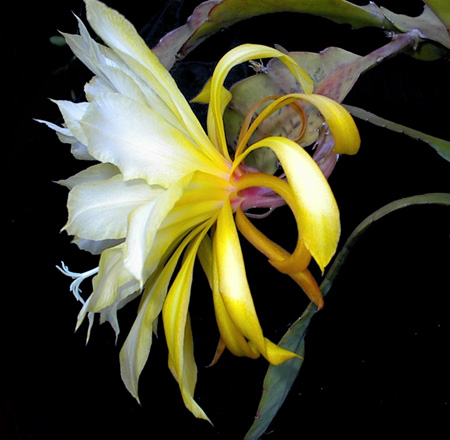 Disophyllum 'Queen Anne'